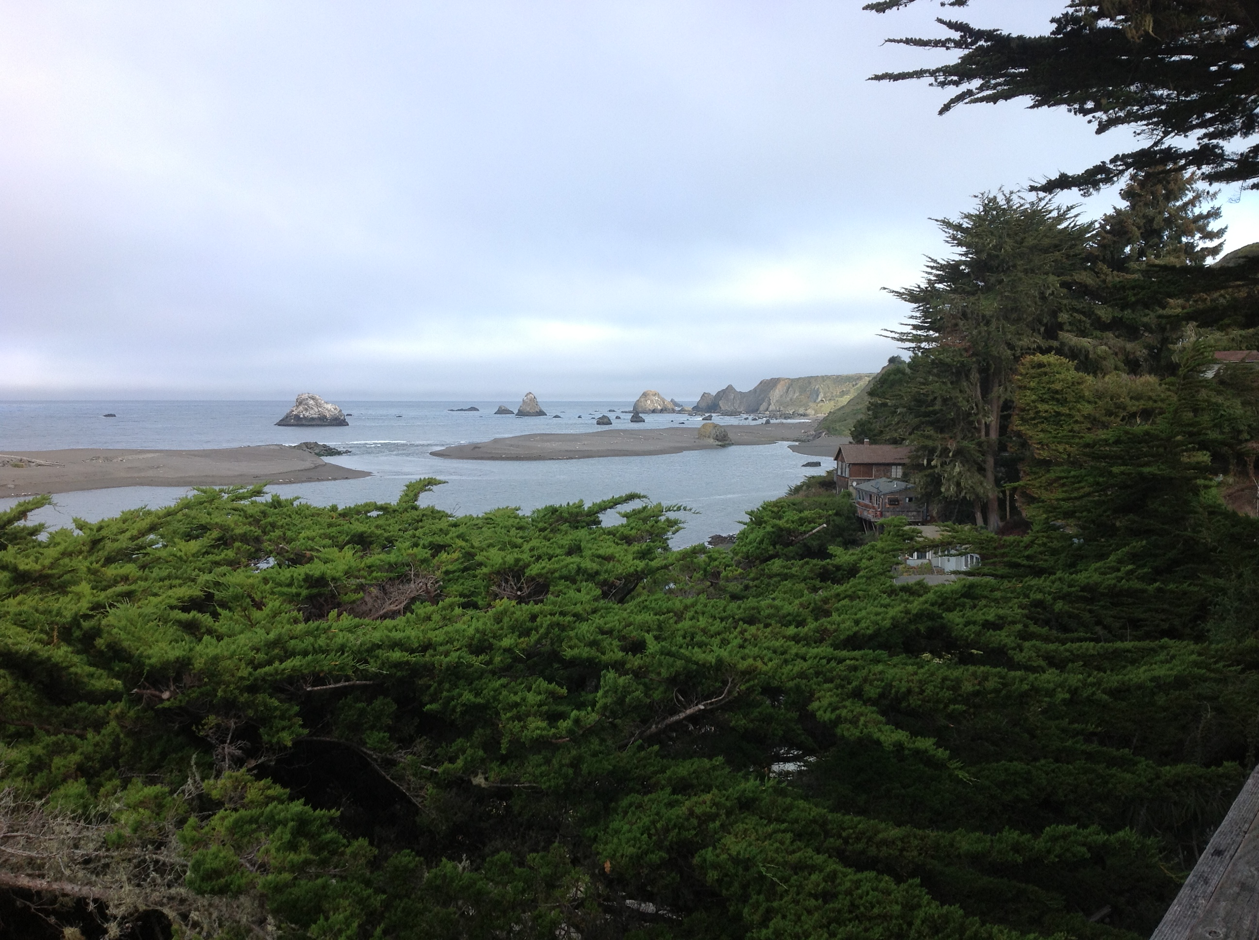 Russian River meets the Pacific Ocean in Sonoma Coast State Park — Sonoma County, California.